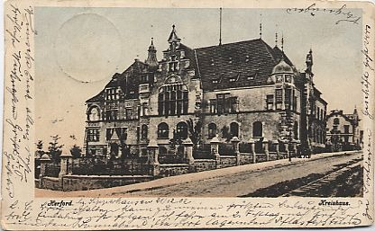 Old county hall in town of Herford, District of Herford, North Rhine-Westphalia, Germany. Post card.